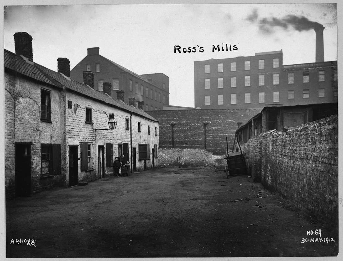 Creator: Alexander R. Hogg for Belfast Corporation Date: 30th May 1912 Description: Hamill Street Area: Johnstone's Court right to left No.s 269A to 275 on plan. Streets in photo: Johnstone's Court. Premises in photo: Ross's Mill PRONI Ref: LA/7/8/HF/3/69 Copying and copyright: Please For Copy Orders, contact: For fees and charges